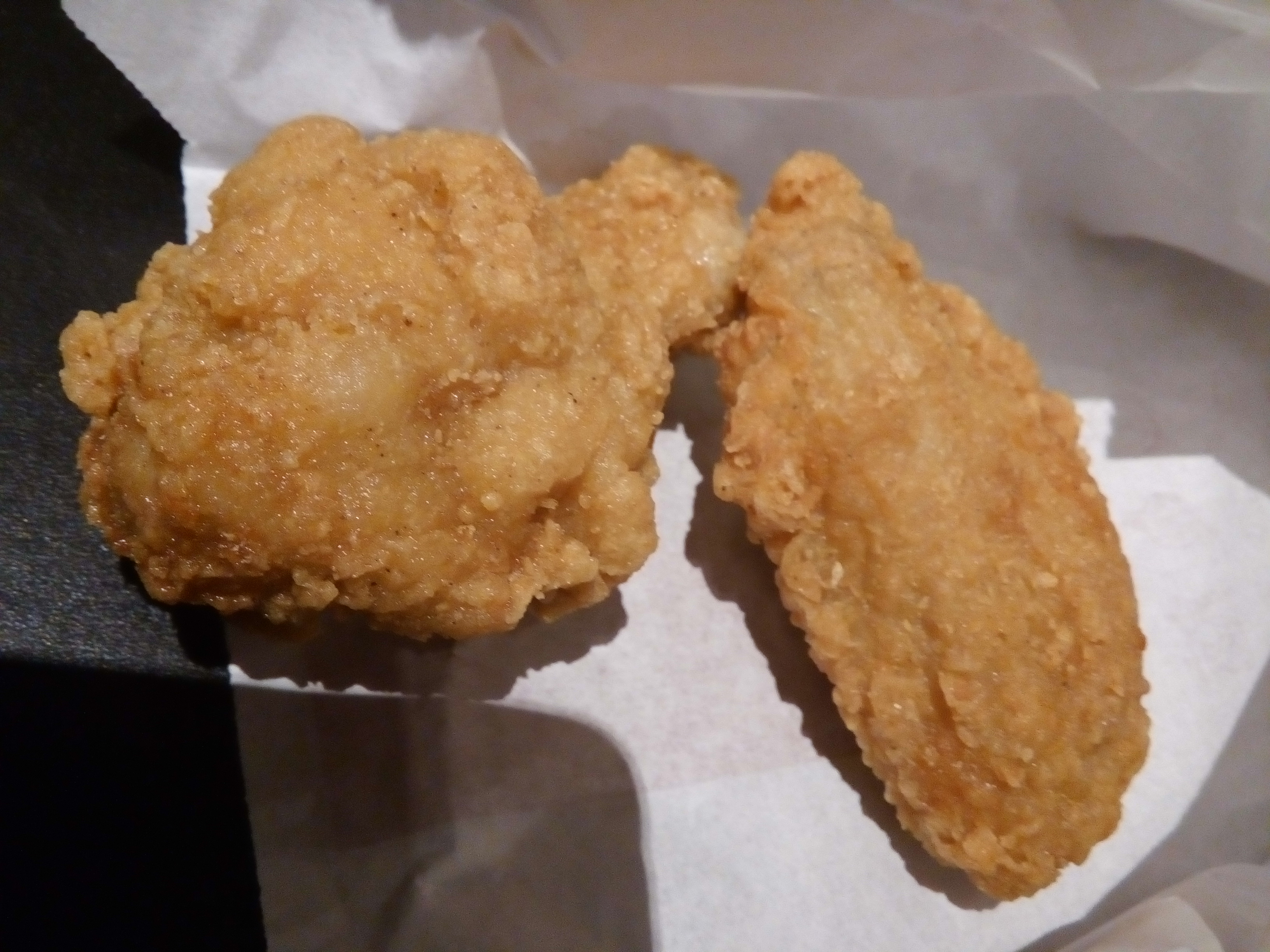 HK 上環 Sheung Wan 麥當勞快餐店 McDonalds food special prise price 脆香雞翼 McWings 細可樂 small Coca Cola Jan 2017